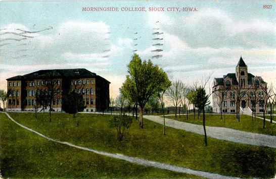 Postcard view of Morningside College, 1910s